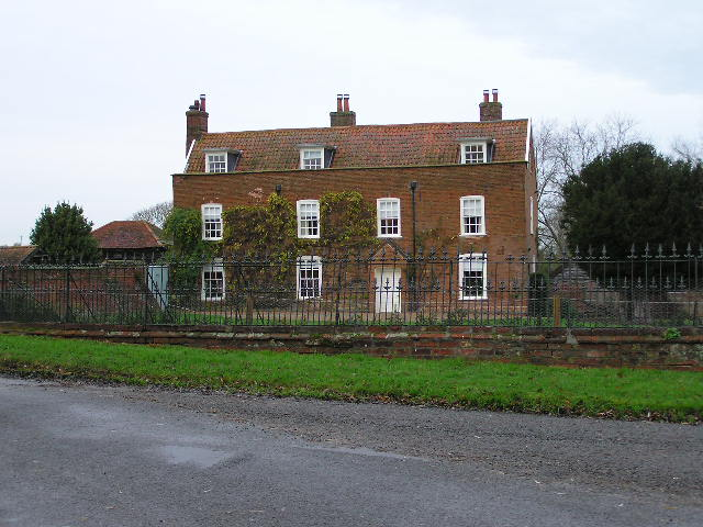 Dallinghoo Hall